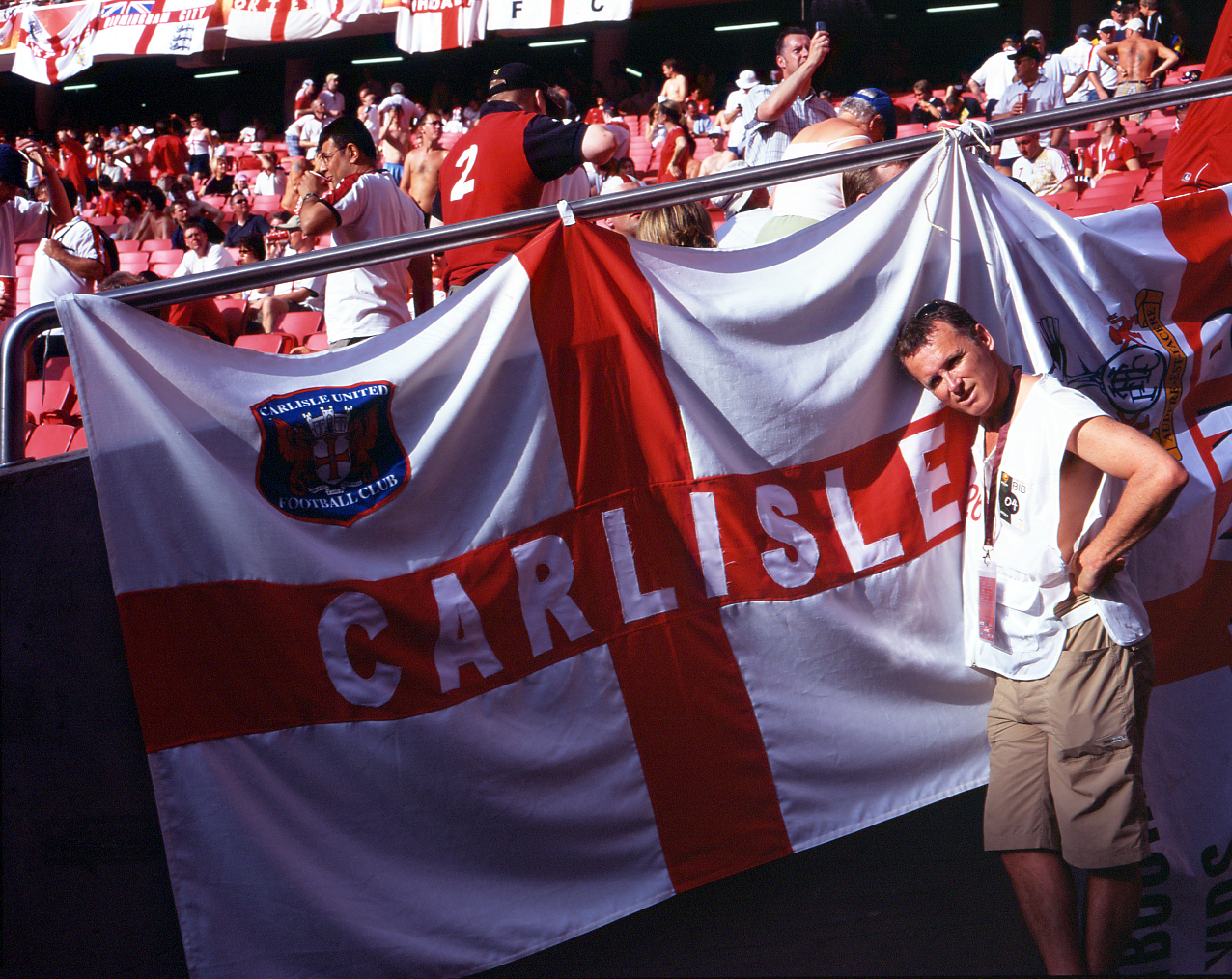 Stuart Roy Clarke with huge Carlisle flag at a England football match abroad.